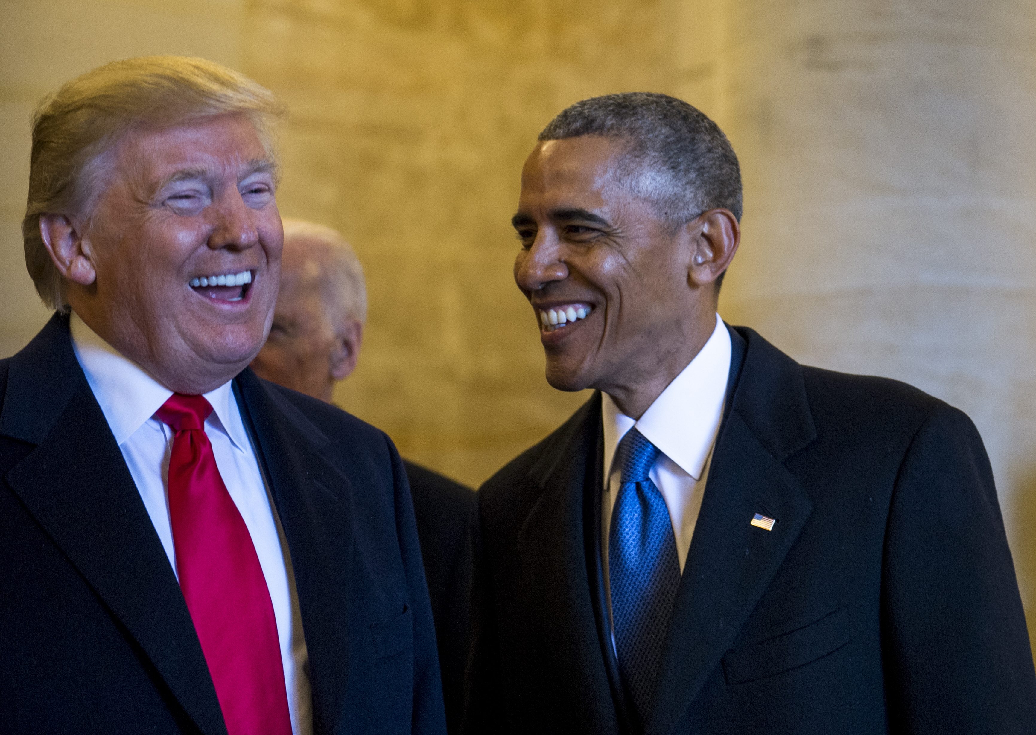 U.S. President Donald J. Trump and Former U.S. President Barack Obama wait to exit the east front steps for the departure ceremony during the 58th Presidential Inauguration in Washington, D.C., Jan. 20, 2017. More than 5,000 military members from across all branches of the armed forces of the United States, including reserve and National Guard components, provided ceremonial support and Defense Support of Civil Authorities during the inaugural period. (DoD photo by U.S. Air Force Staff Sgt. Marianique Santos)